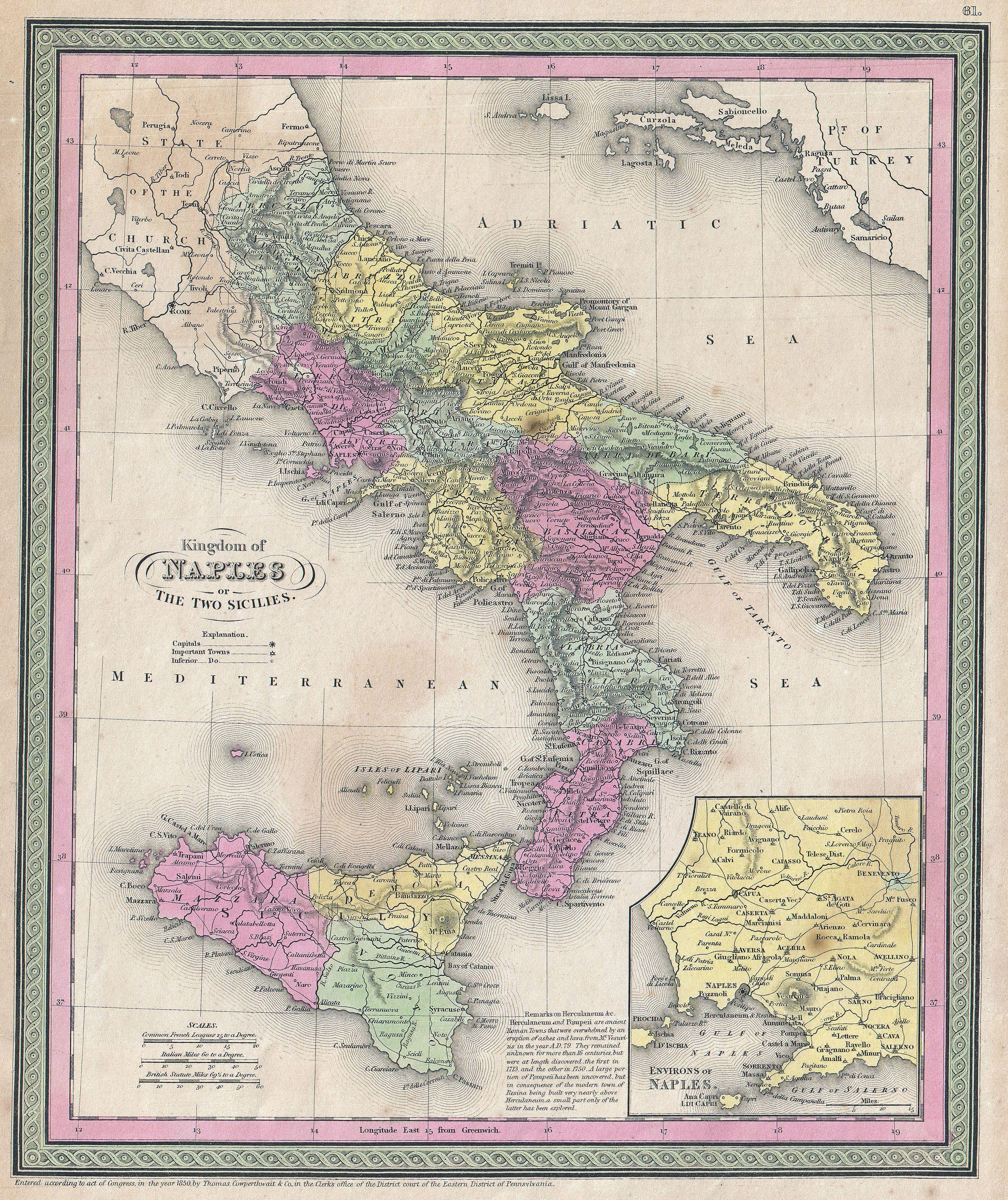 An extremely attractive example of S. A. Mitchell Sr.’s 1853 map of Southern Italy and Sicily. Covers from Rome south to include the boot of Italy and Sicily. Color coded according to region. An inset in the lower right hand quadrant details the vicinity of Naples. Surrounded by the green border common to Mitchell maps from the 1850s. Prepared by S. A. Mitchell for issued as plate no. 61 in the 1853 edition of his New Universal Atlas .